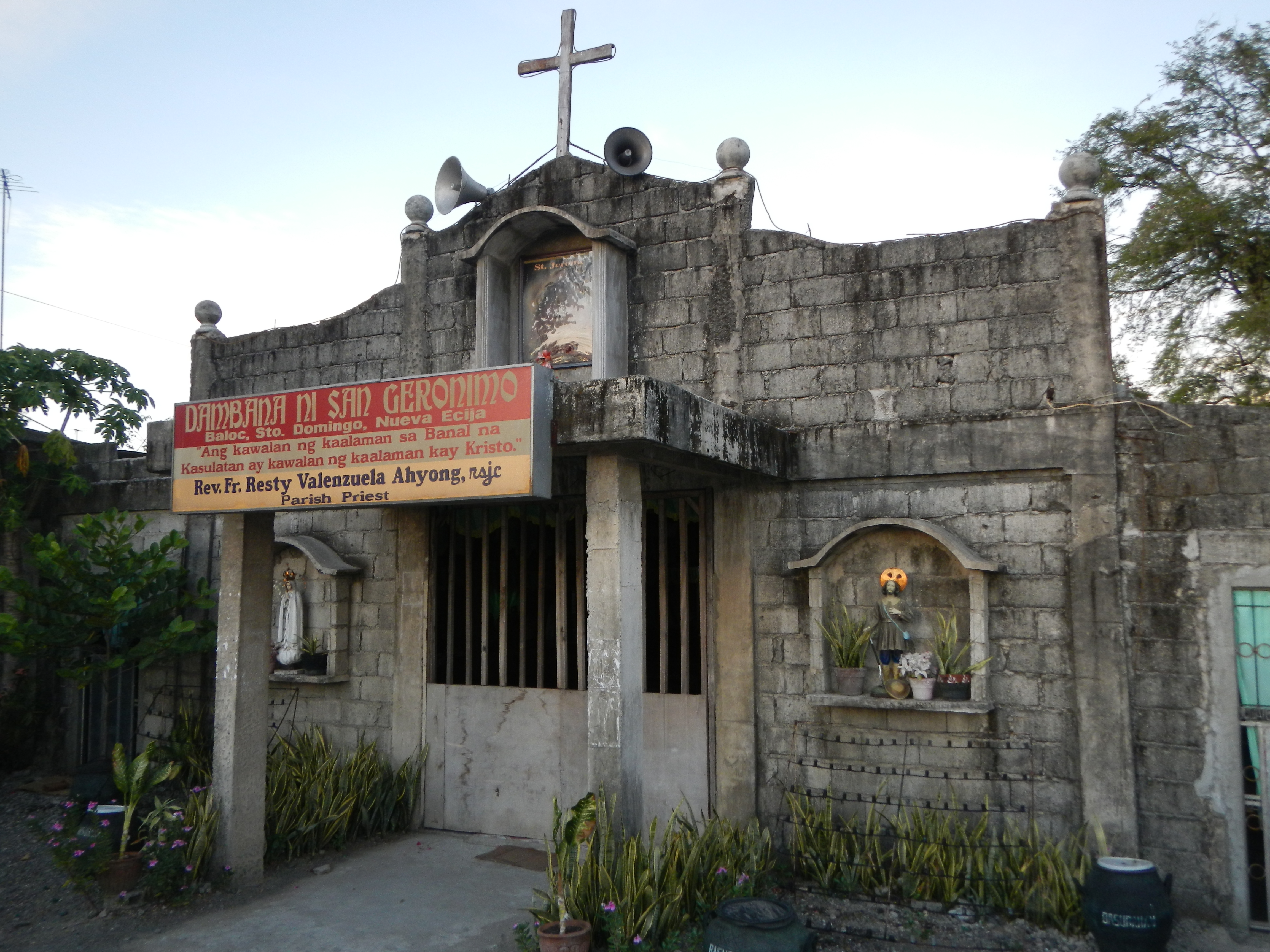 Dambana ni San Geronimo, Fr. Resty Valenzuela Ahyong Baloc, Santo Domingo, Nueva Ecija[1][2]